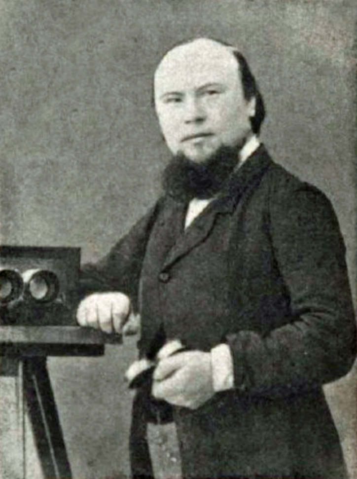 Estonian-German photographer, lithographer, painter and illustrator working in Turku, Finland, between 1875–1896. Born Tartu, Estonia 1823, died in Turku 1896.